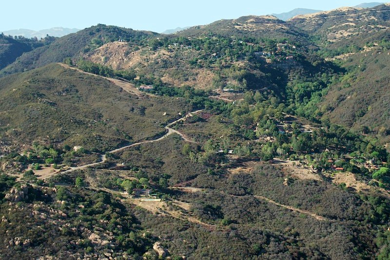 The main community is in the treed area at the top-center of the photo, below the road along the more distant bare ridge line. Painted Cave Road may be seen traversing diagonally up from the lower-left.